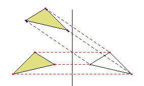 Example of glide reflection